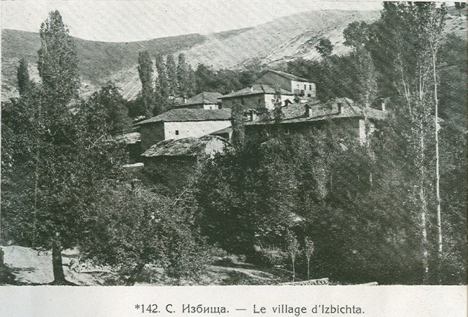 Village of Izbishta, Resensko, Republic of Macedonia